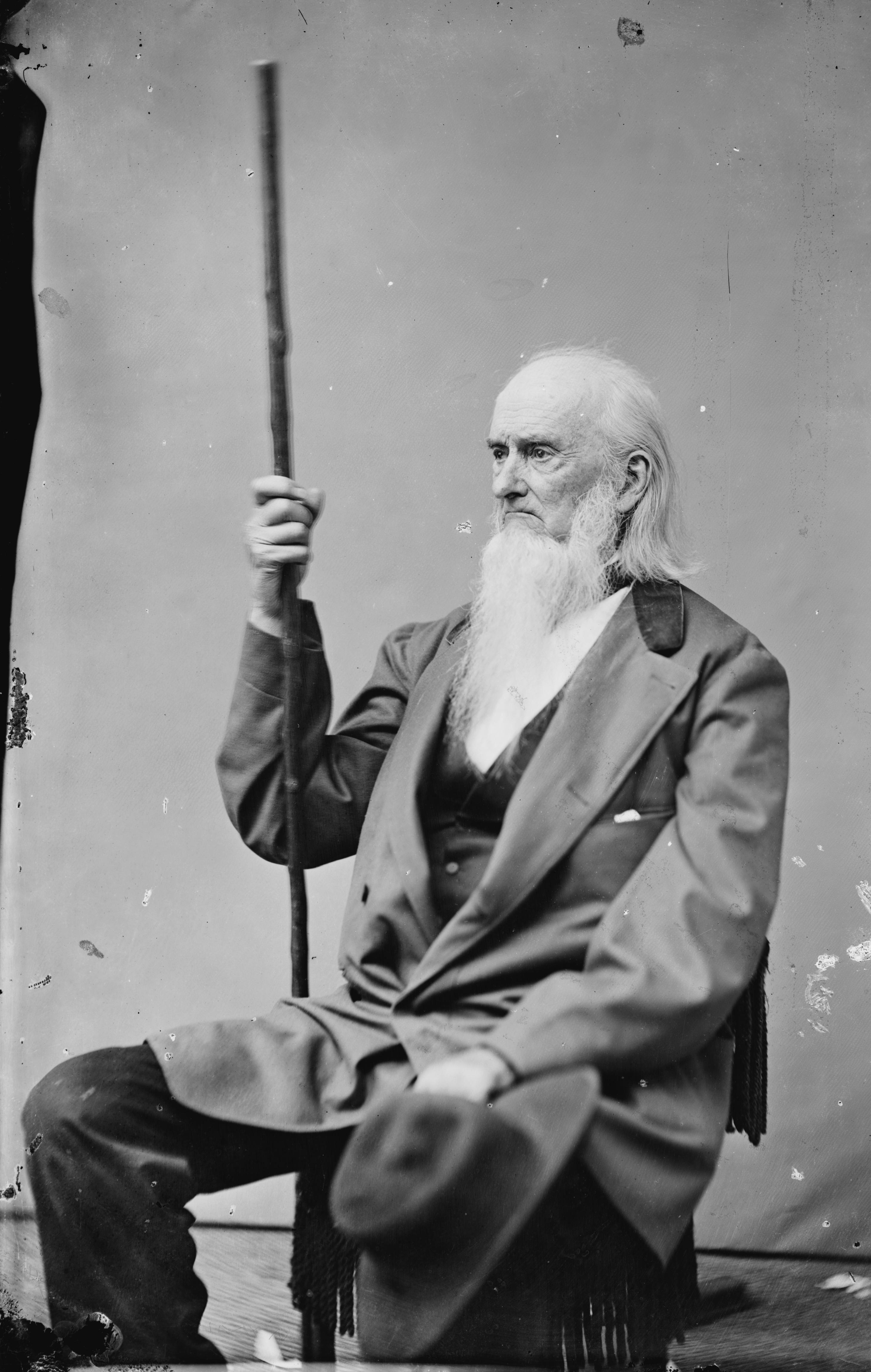 Duff Green. Library of Congress description: "Gen. Duff Green"